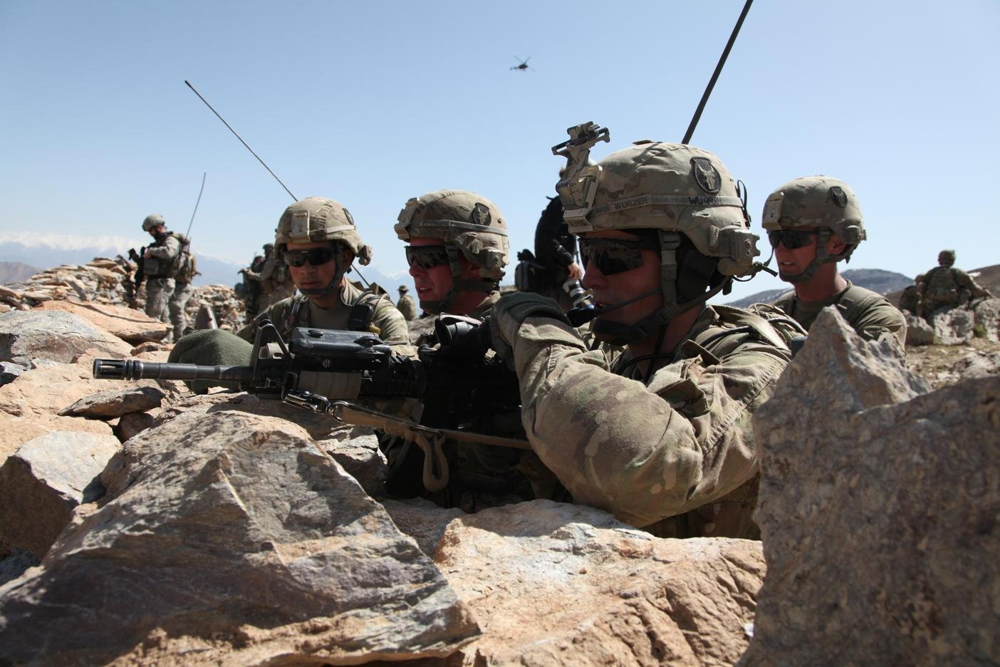 Soldiers from 34th Infantry Division, Task Force Red Bulls, discuss plans to maneuver into Pacha Khak village, Afghanistan, while conducting a dismounted patrol, April 7.